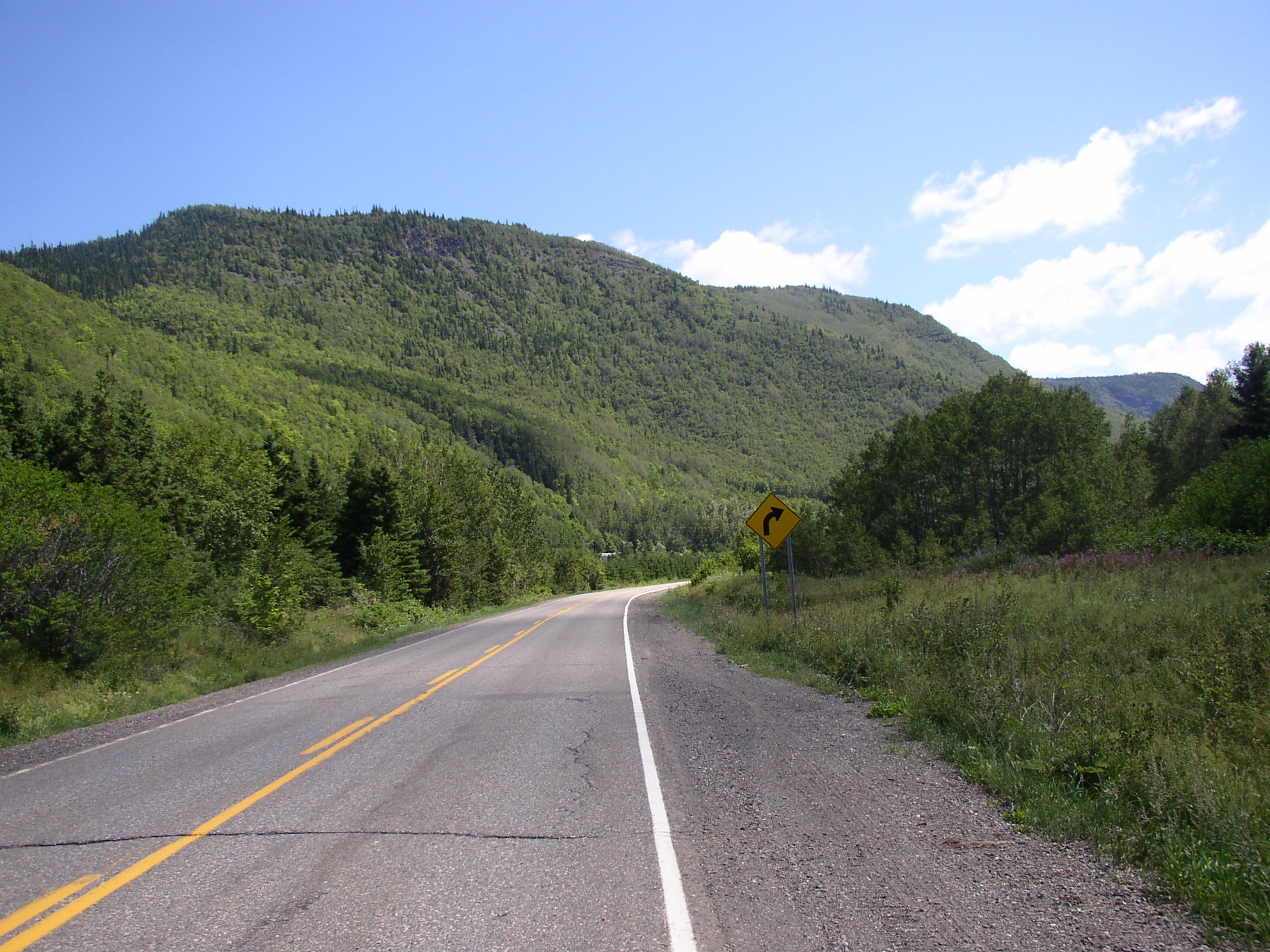 My own picture